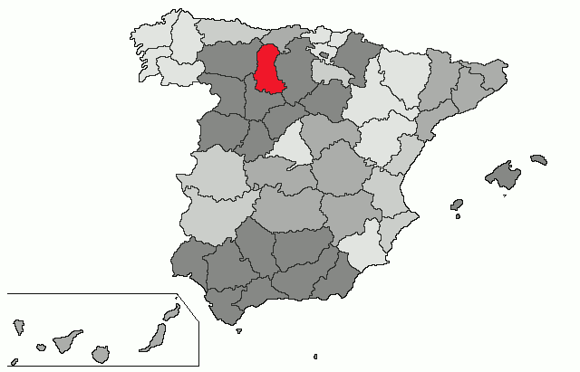 Province of Palencia Based in: Image:ProvPont.jpg